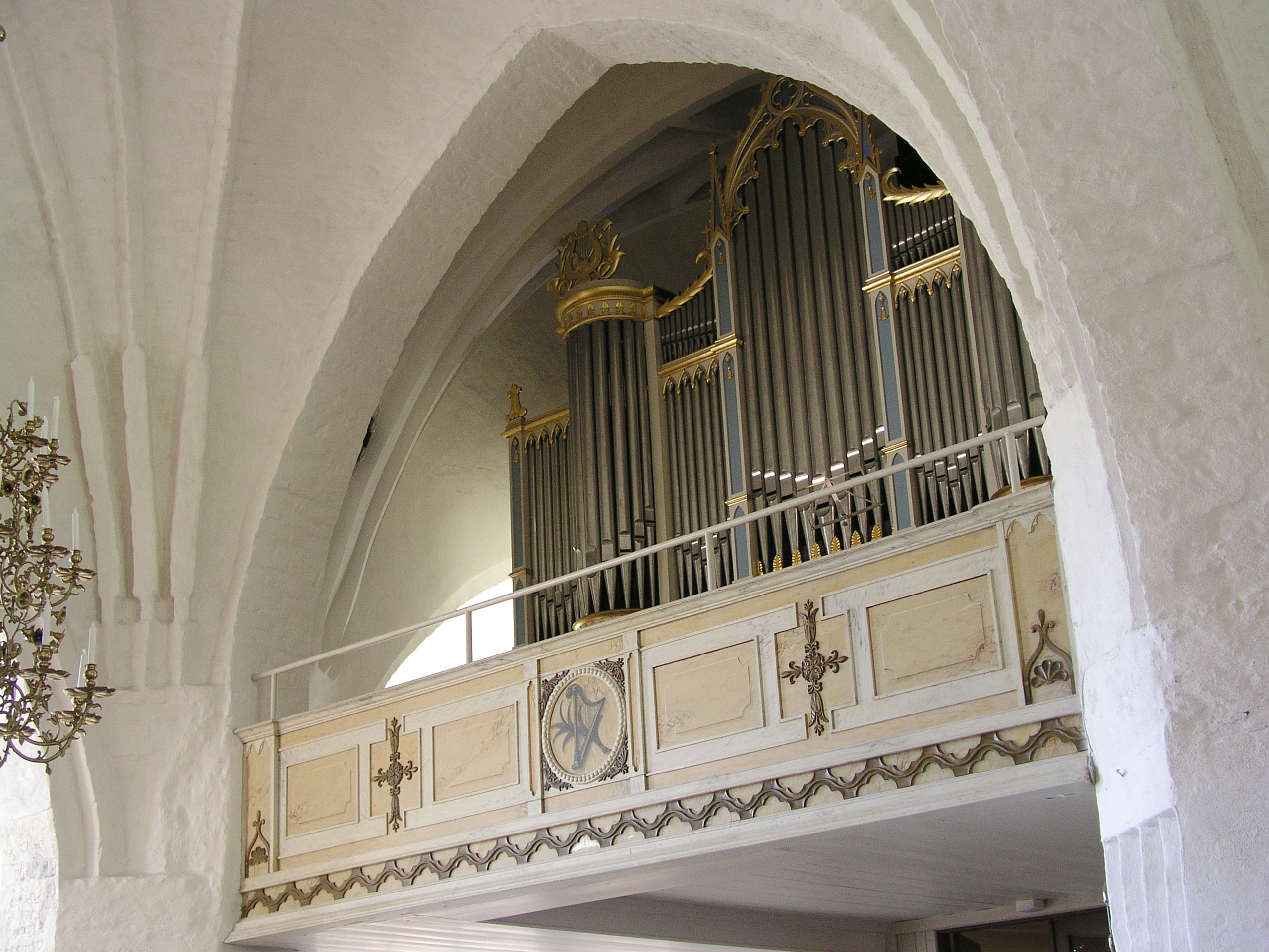 Sankt Laurentii church, Söderköping, Sweden. Church organ.